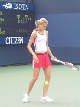 Czech tennis player Lucie Šafářová at US Open 2006